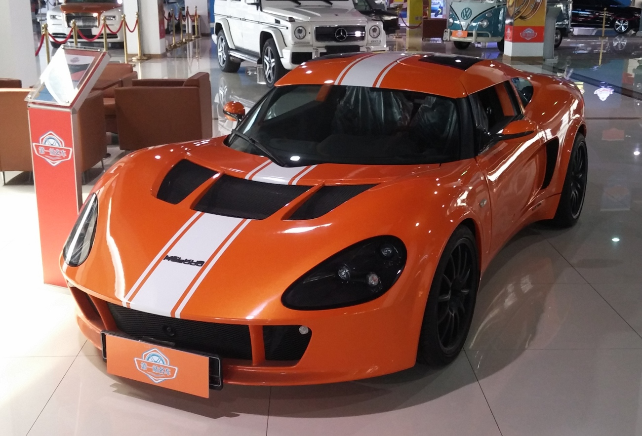 Melkus RS2000 photographed in Beijing, China.